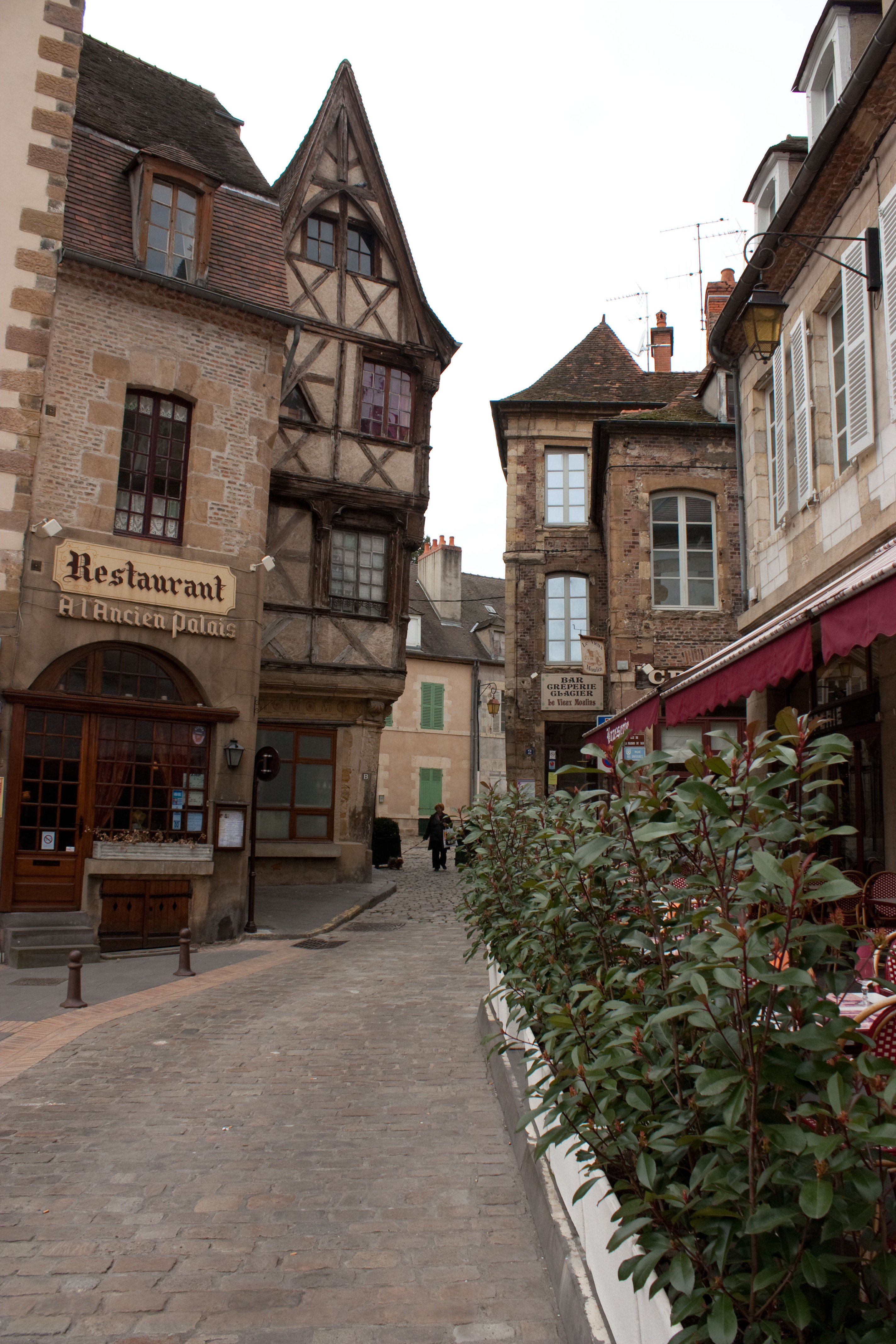 Moulins (Allier, France) : Ancien Palais street